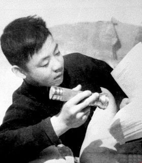 Lei Feng read the Selected Works of Mao Zedong in the night.Lei Feng (18 December 1940 – 15 August 1962) was a soldier of the People's Liberation Army of China.